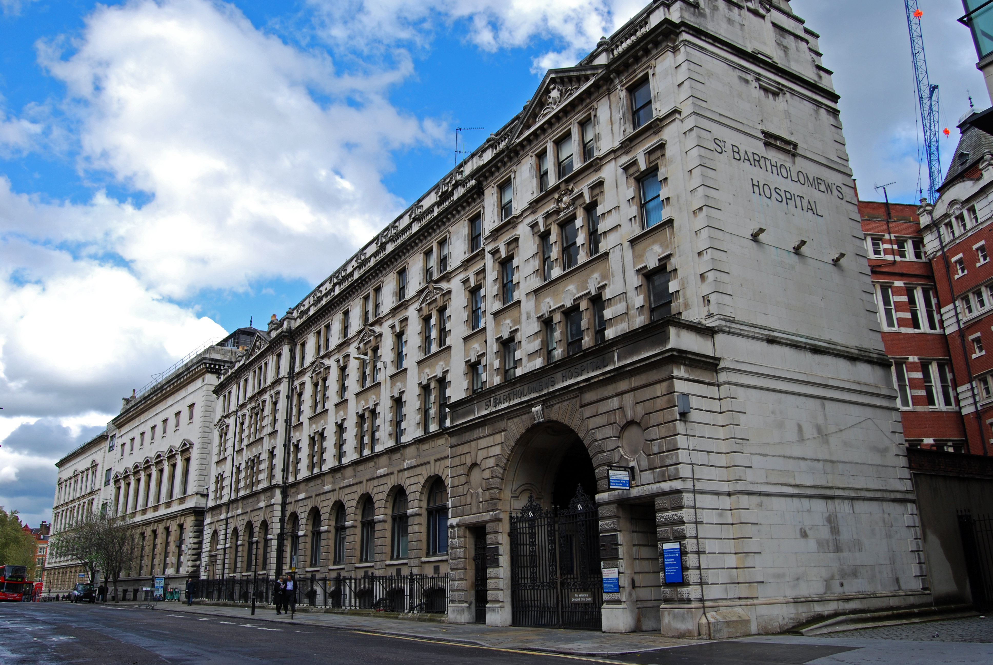 St Bartholomew's Hospital